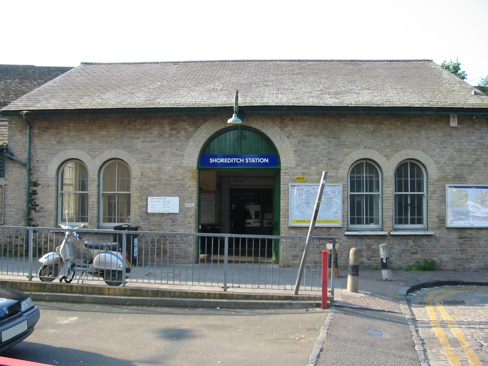 Old Shoreditch Station exterior